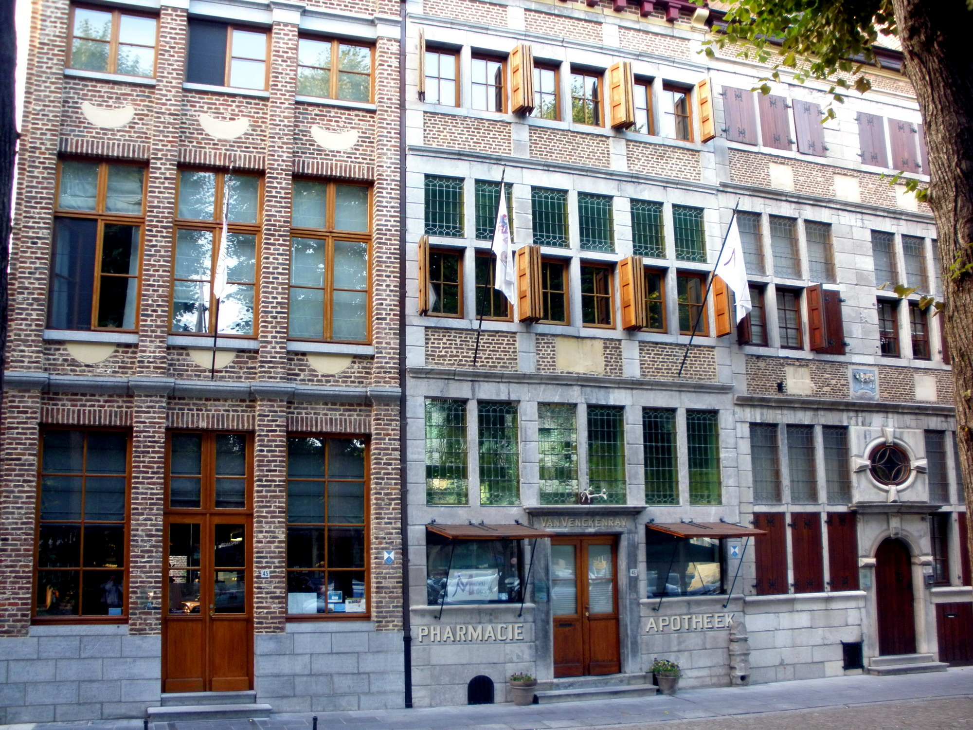 Maaseik, Belgium. View of three houses on Markt, the main square in the town center. The two buildings on the right are 17th-century houses built in local Mosan Renaissance style. The house on the left is the entrance of the local history museum.